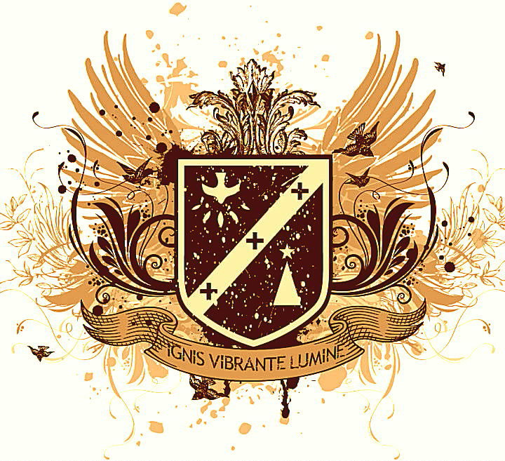 CSE badge 2